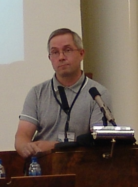 Hannu Kari: Infinite Bandwidth